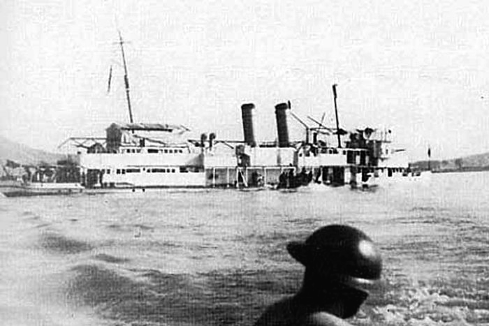 USS Panay sinking after Japanese air attack on Nanking, China, on December 12, 1937, in what became known as the Panay incident.